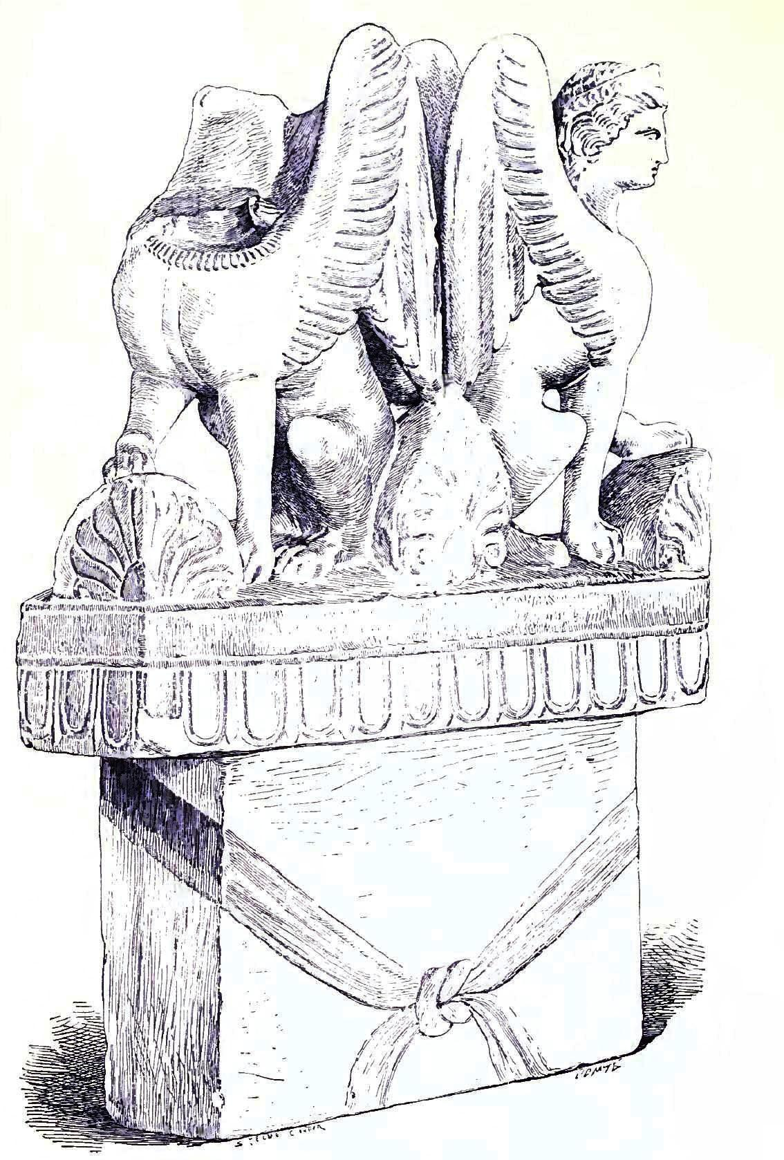 Cypriot stele - Metropolitan Museum of Art